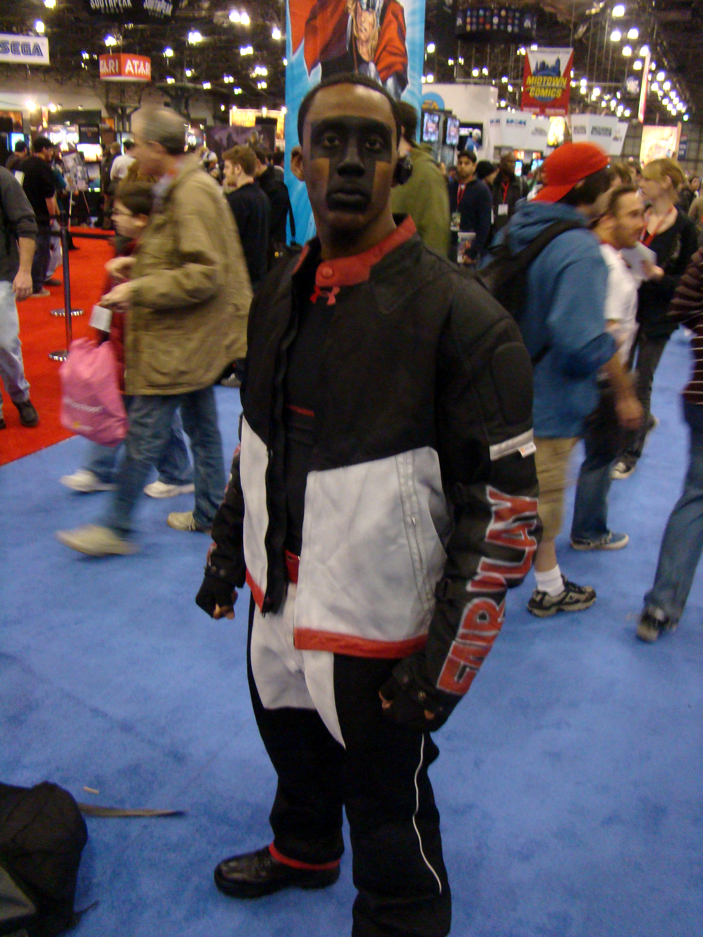 i love, love, love this mr. terrific outfit. smart idea and really good execution. New York Comic-Con, Saturday, February7th, 2009. If you see yourself in this or any of my other pictures, let me know in the comments, or by emailing me at loser: [at] istolethe [dot] tv.